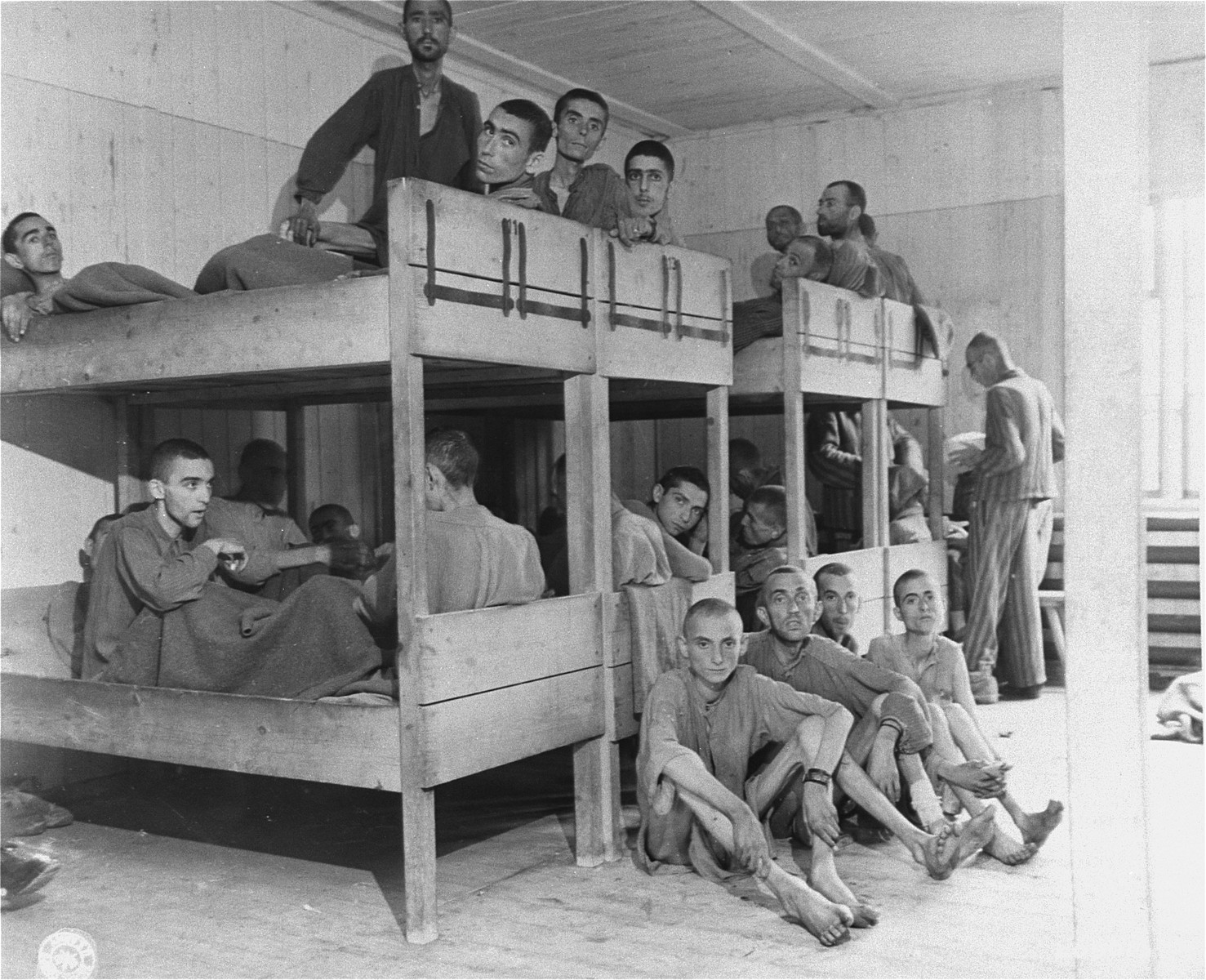 see title